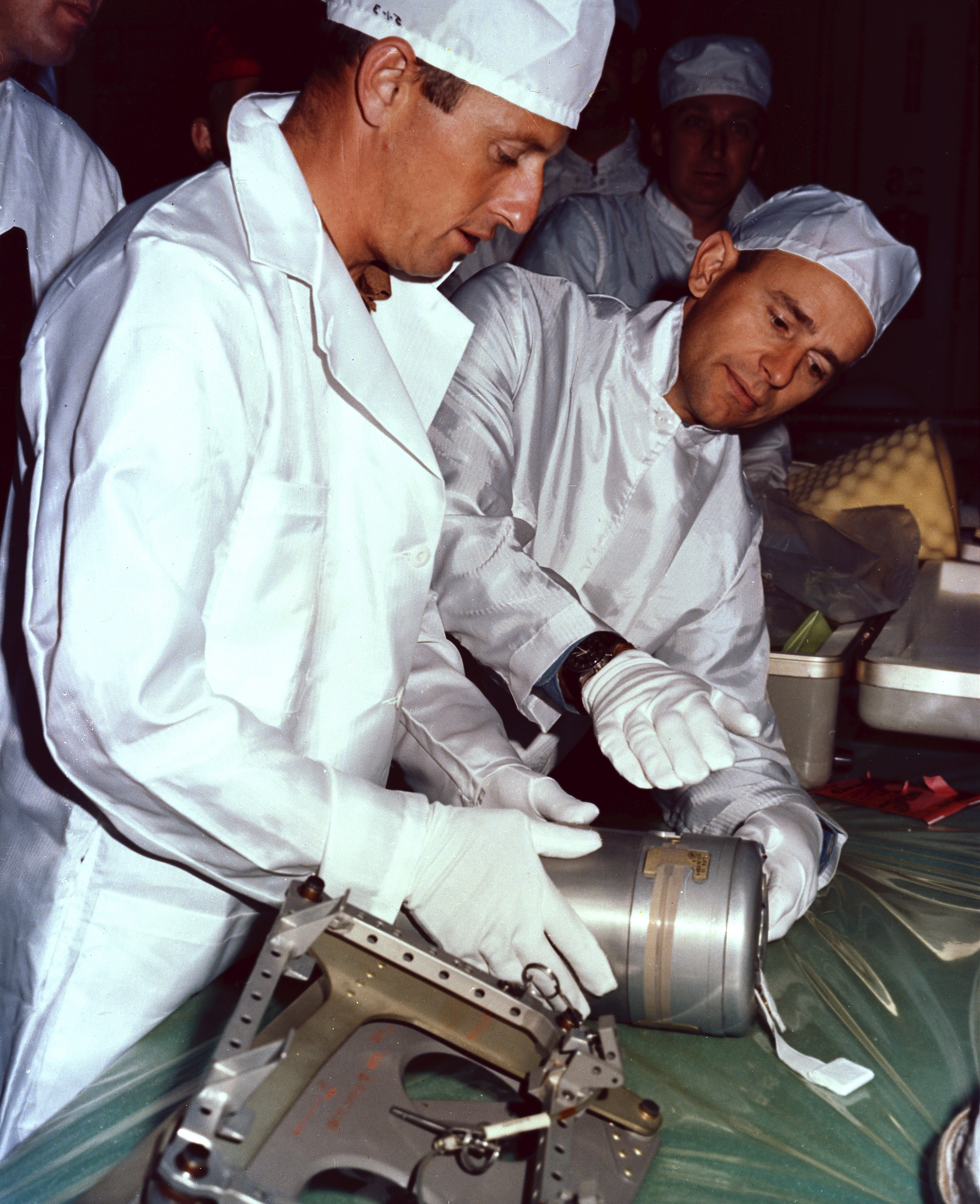 Pete Conrad and Al Bean shown examining the Passive Seismometer prior to the flight